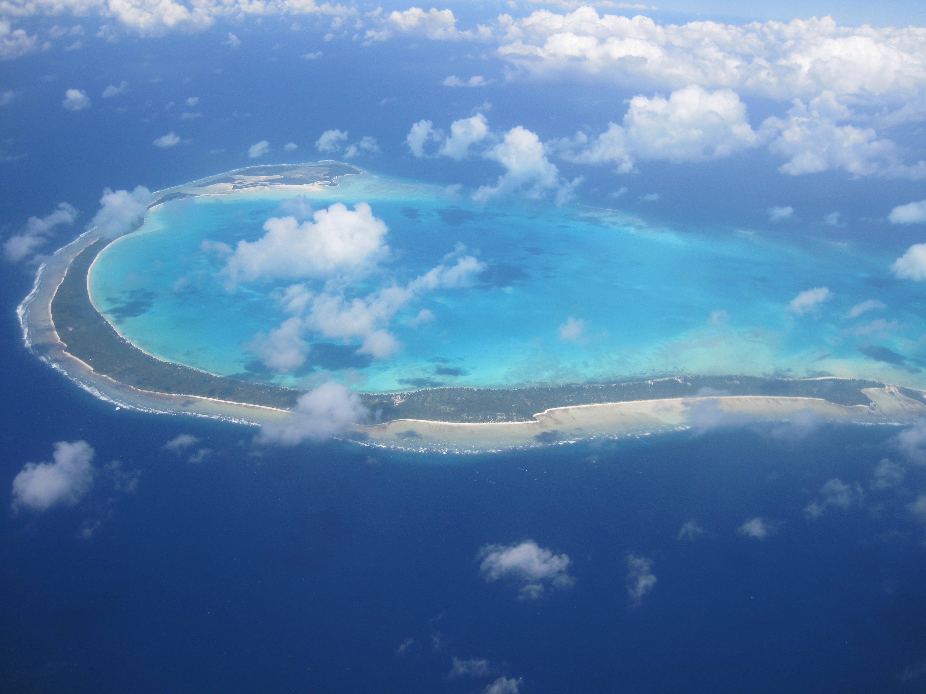 Onotoa Atoll from the East, from an airplane midway from Tabiteuea and Arorae atolls, Gilbert Islands, Republic of Kiribati, Central Pacific.